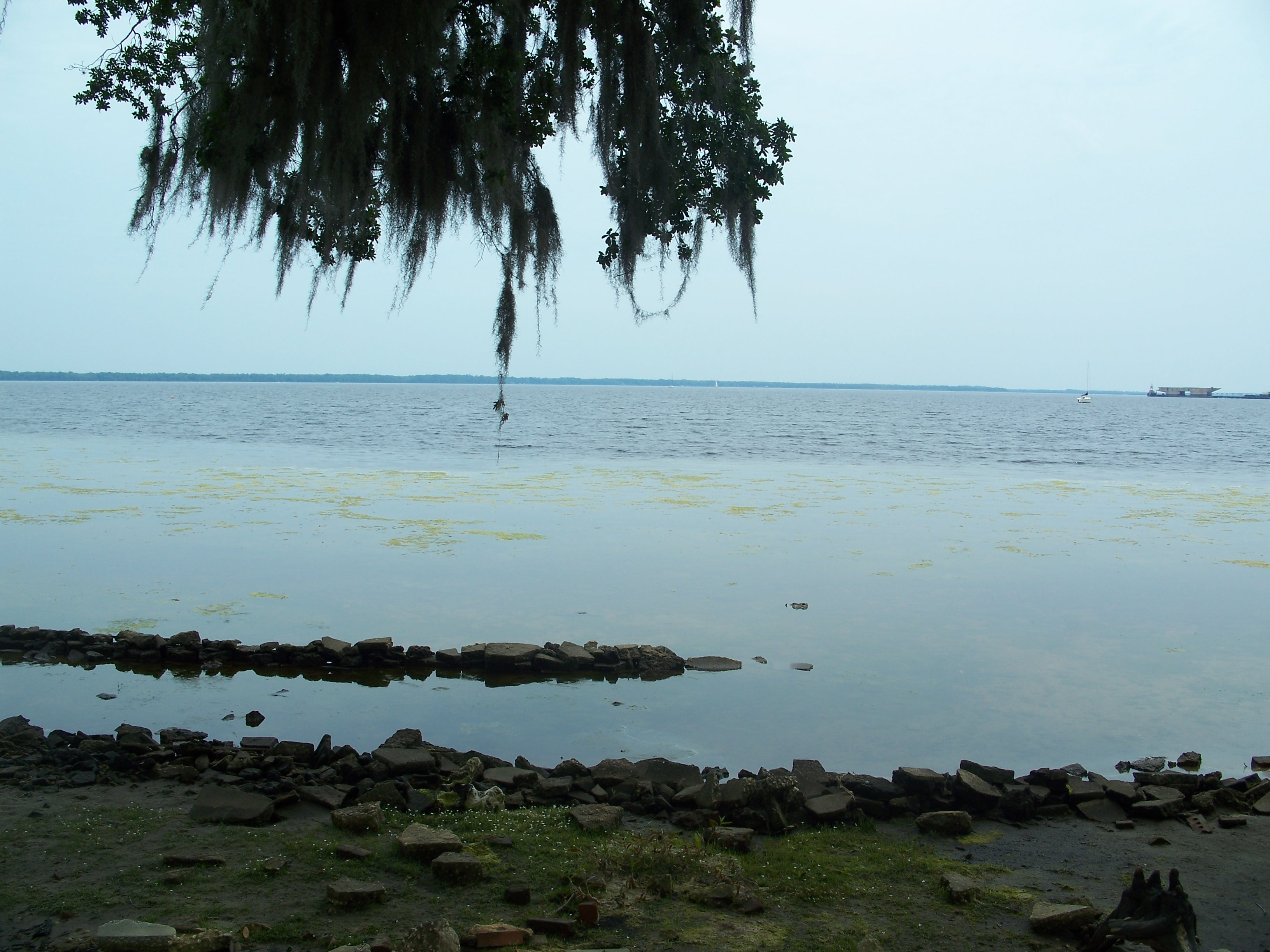 St. Johns River, at the Shands Bridge